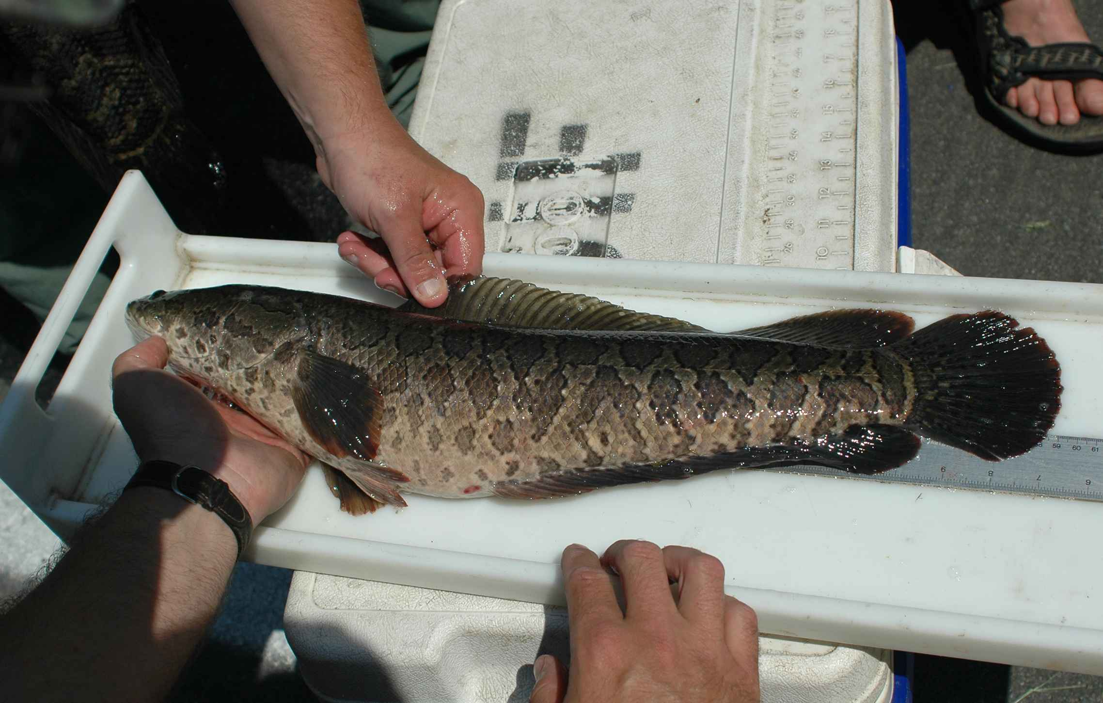 Image title: Northern snakehead fish Image from Public domain images website